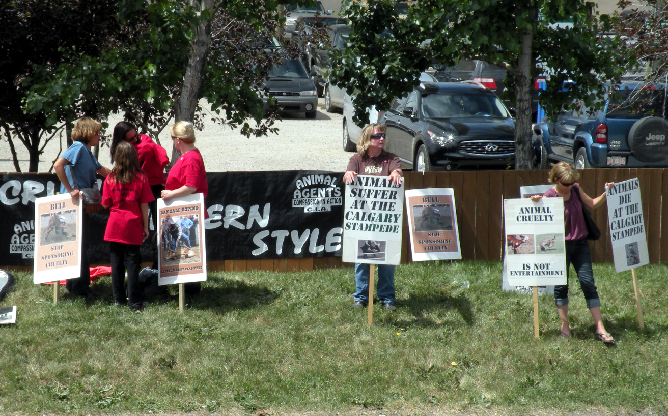 Anti-rodeo protesters picket across from the Stampede grounds at the 2011 Calgary Stampede